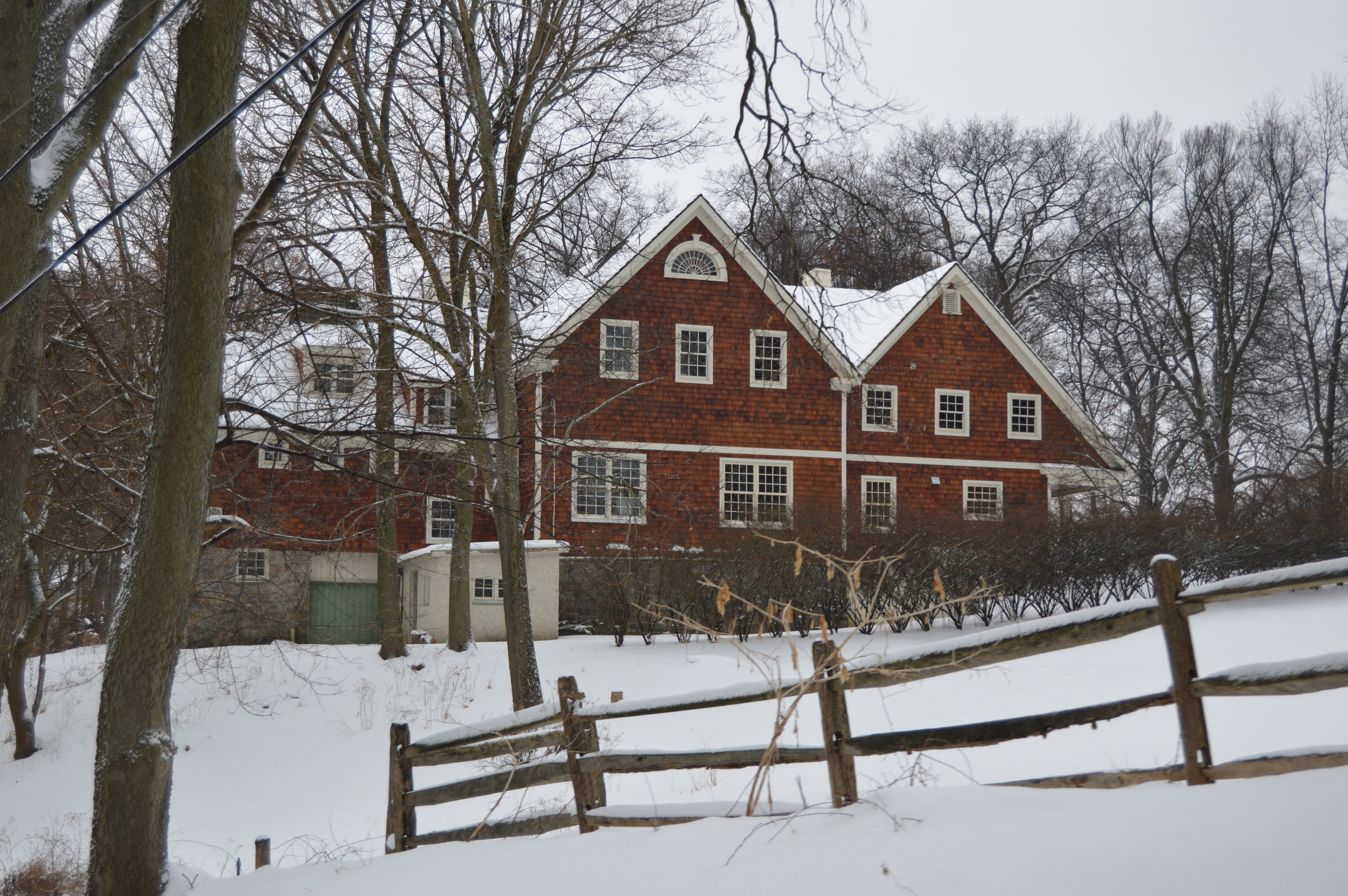 Northern side of a Shingle Style house on Backbone Road in Sewickley Heights, Pennsylvania, United States.